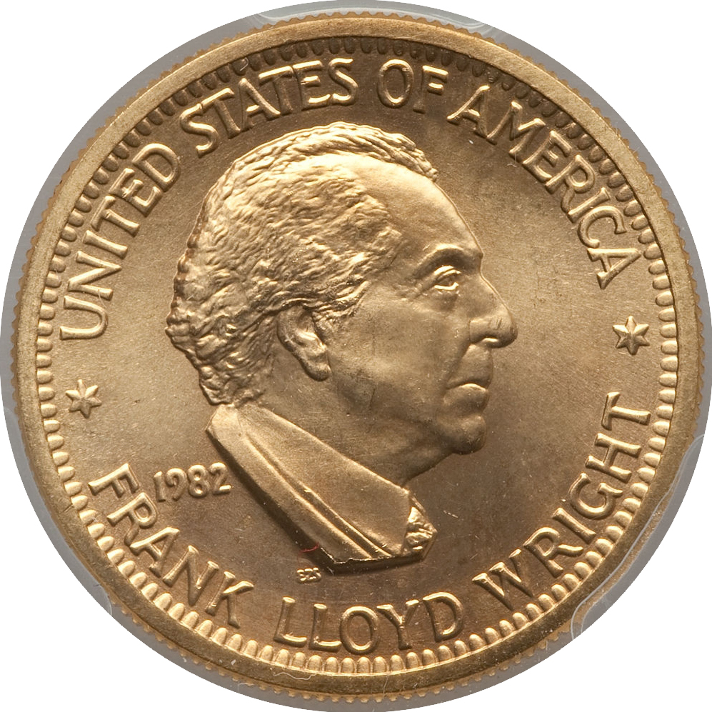 1982 Frank Lloyd Wright Half-Ounce Gold Medal (obv) (1207-9548)